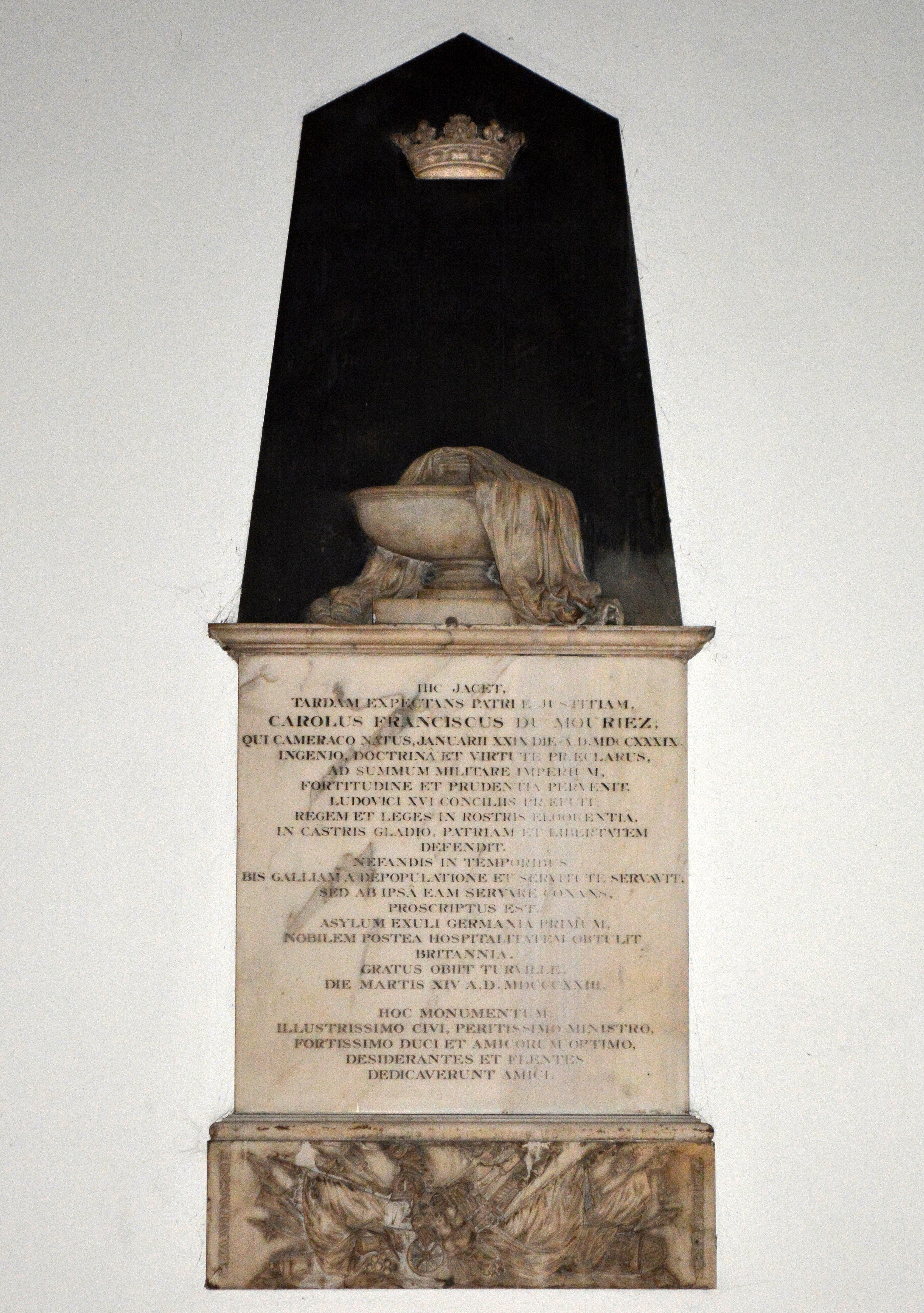 Du Mouriez funery monument in St. Mary the Virgin church Henley-on-Thames